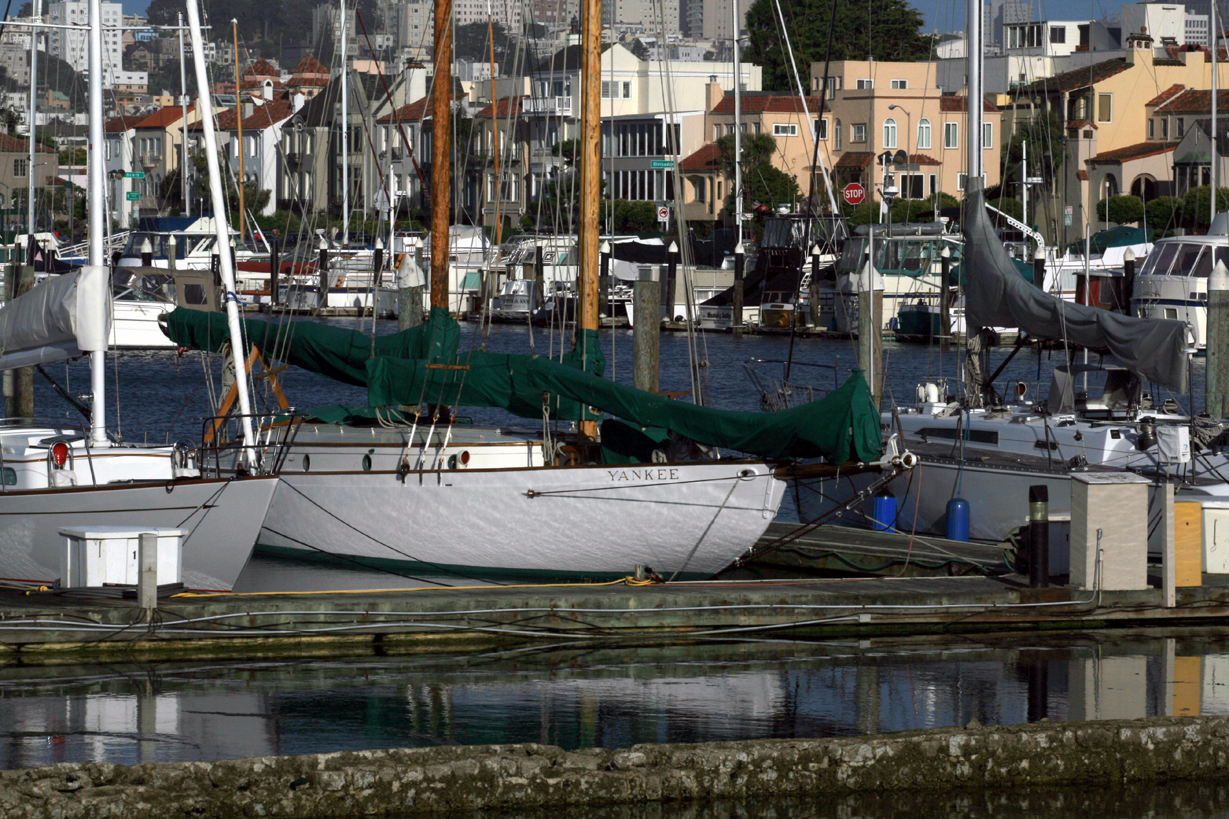 Panorama of Marina District, San Francisco, California